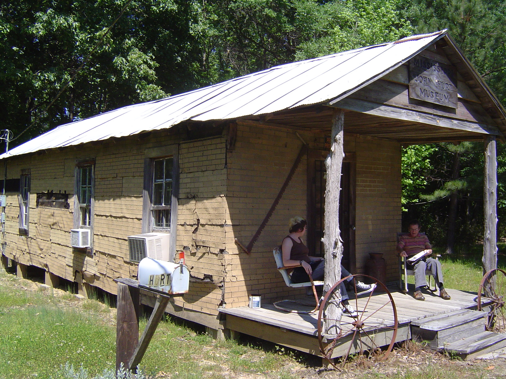 Jo and Art (friendliest curator in the world) at the Mississippi John Hurt Museum — Avalon, Mississippi.